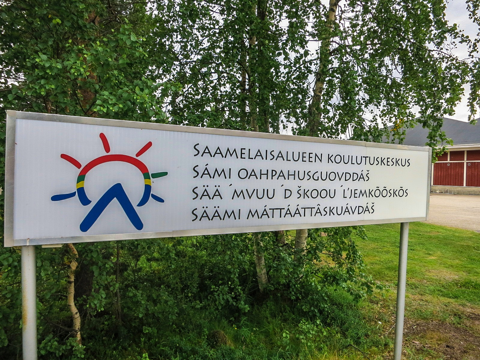 Sign „The Sámi Education Institute“ (Inari, Lapland, Finland) in four local Finno-Ugric languages (from top): Finnish, Northern Sami, Skolt Sami and Inari Sami.